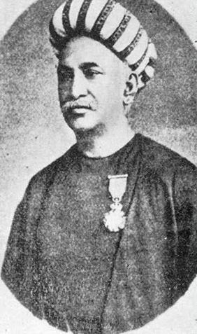 Scanned image of a photograph of an old painting of Rajendralal Mitra (1824-1891)